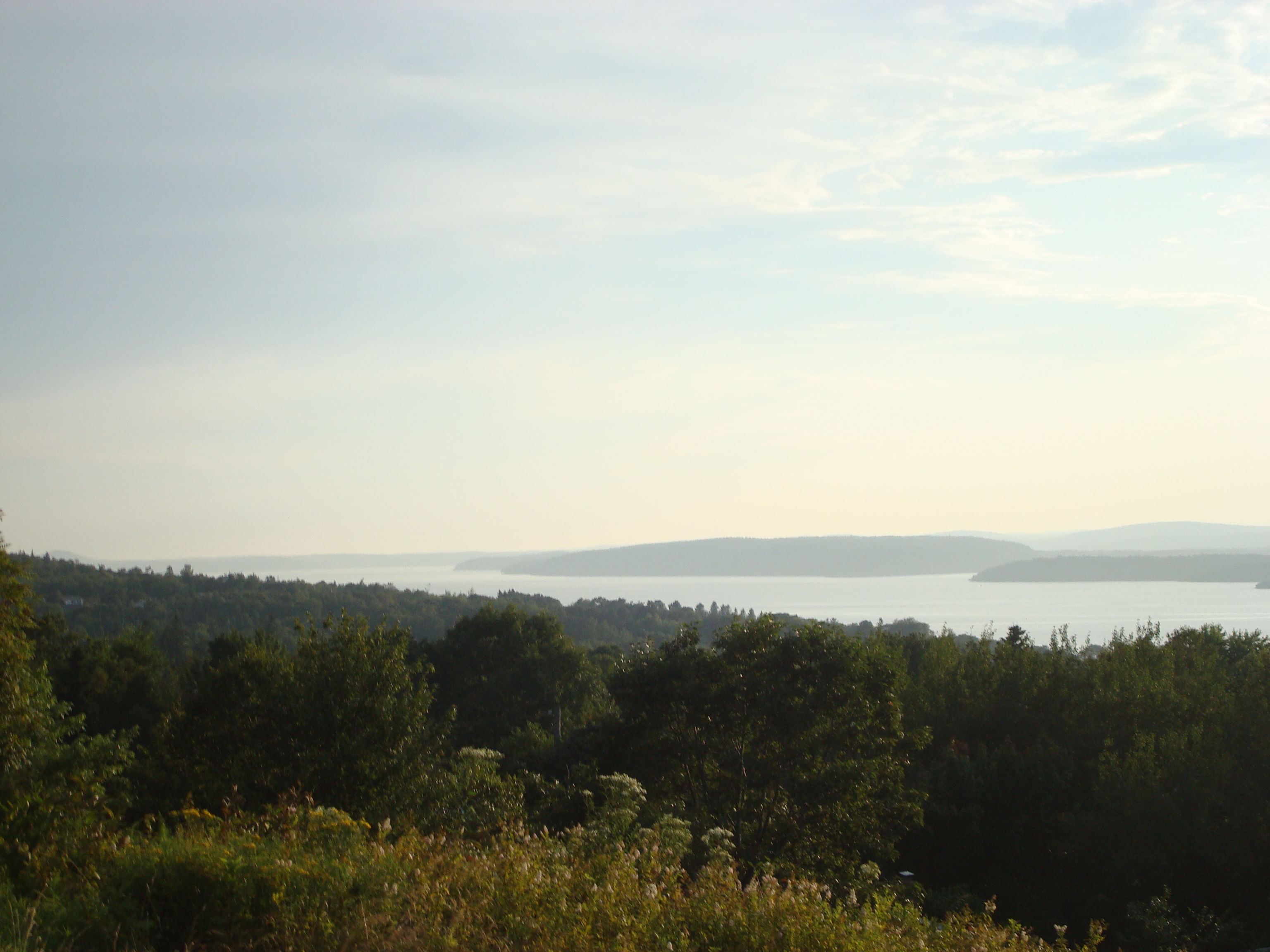 Looking downriver on the Kennebecasis, toward Saint John, NB. Taken from Spyglass Hill.